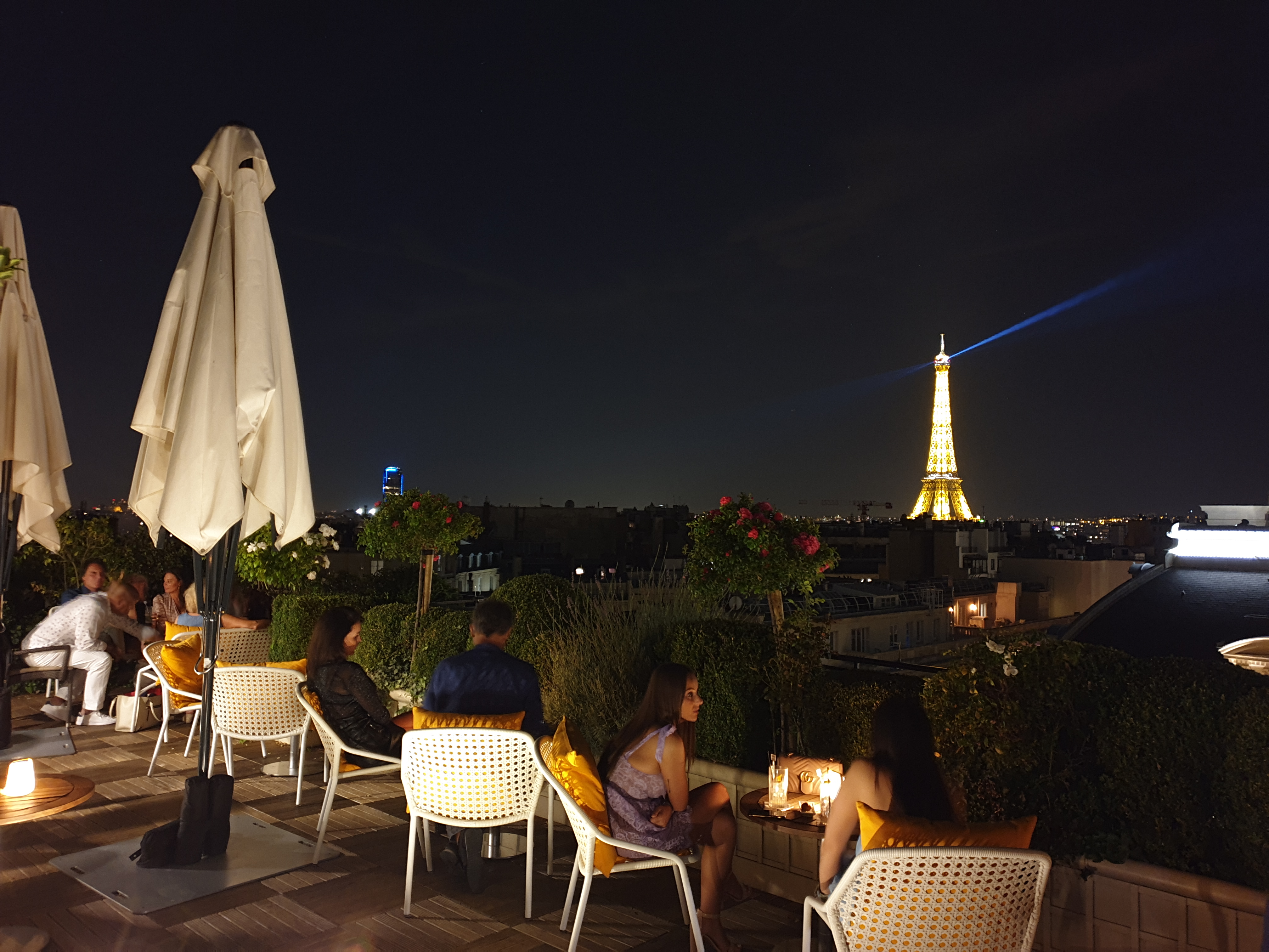 South-east view from the rooftop at the Hôtel Raphael in Paris